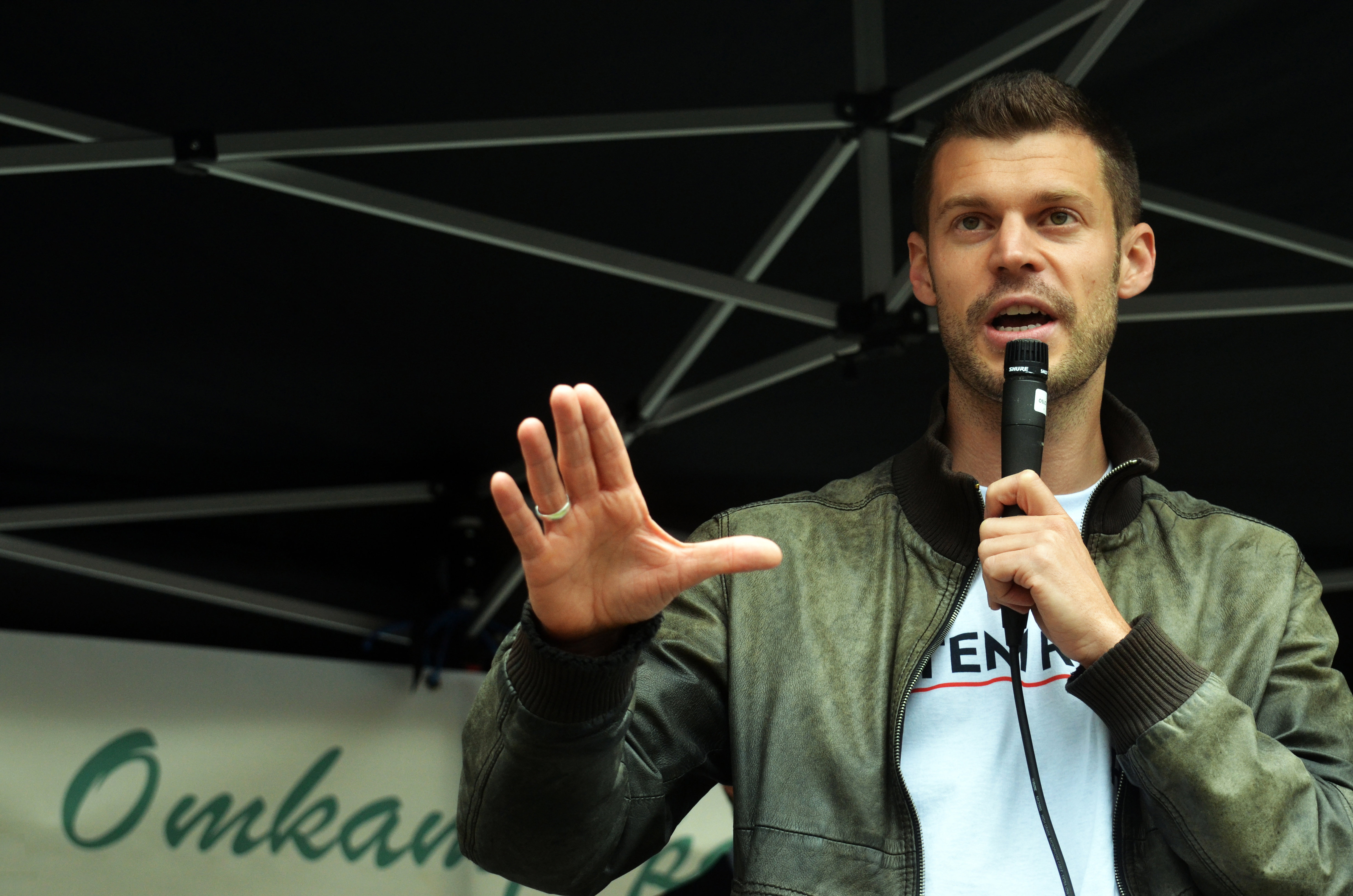 Norwegian Red Party leader Bjørnar Moxnes speaking at a rally in Oslo in support of Syrian refugees.